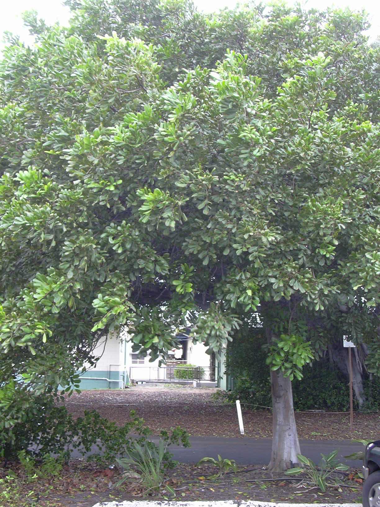 Cupaniopsis anacardioides (habit). Location: Maui, MCC Kahului